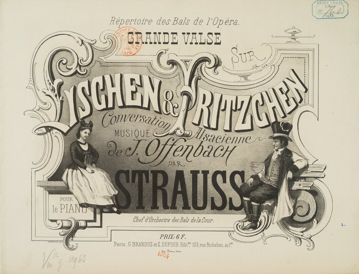 Grande valse on Jacques Offenbach's operetta 'Lischen et Fritzchen', arranged by Isaac Strauss. Title page with engraving